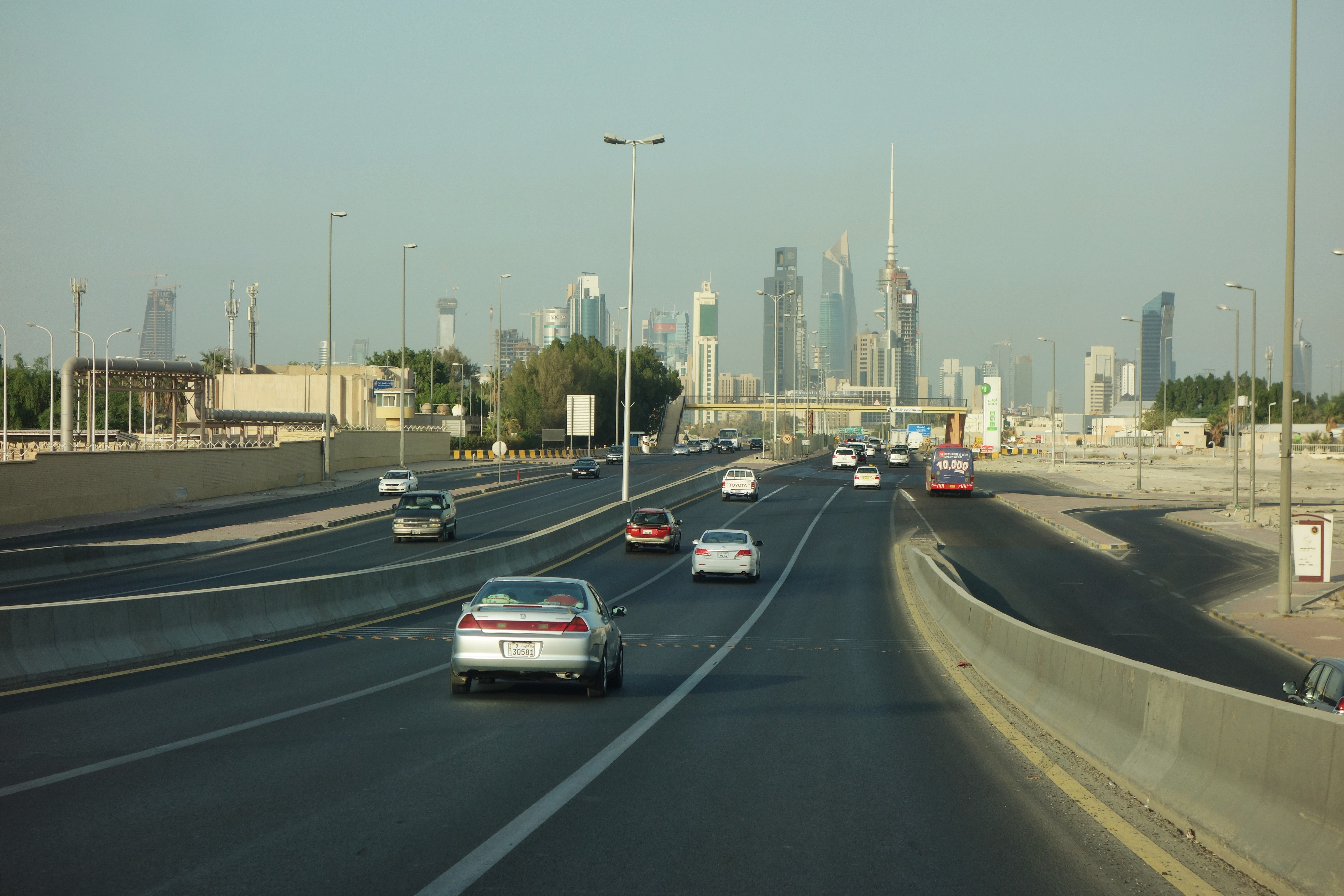 Downtown Kuwait City Skyline